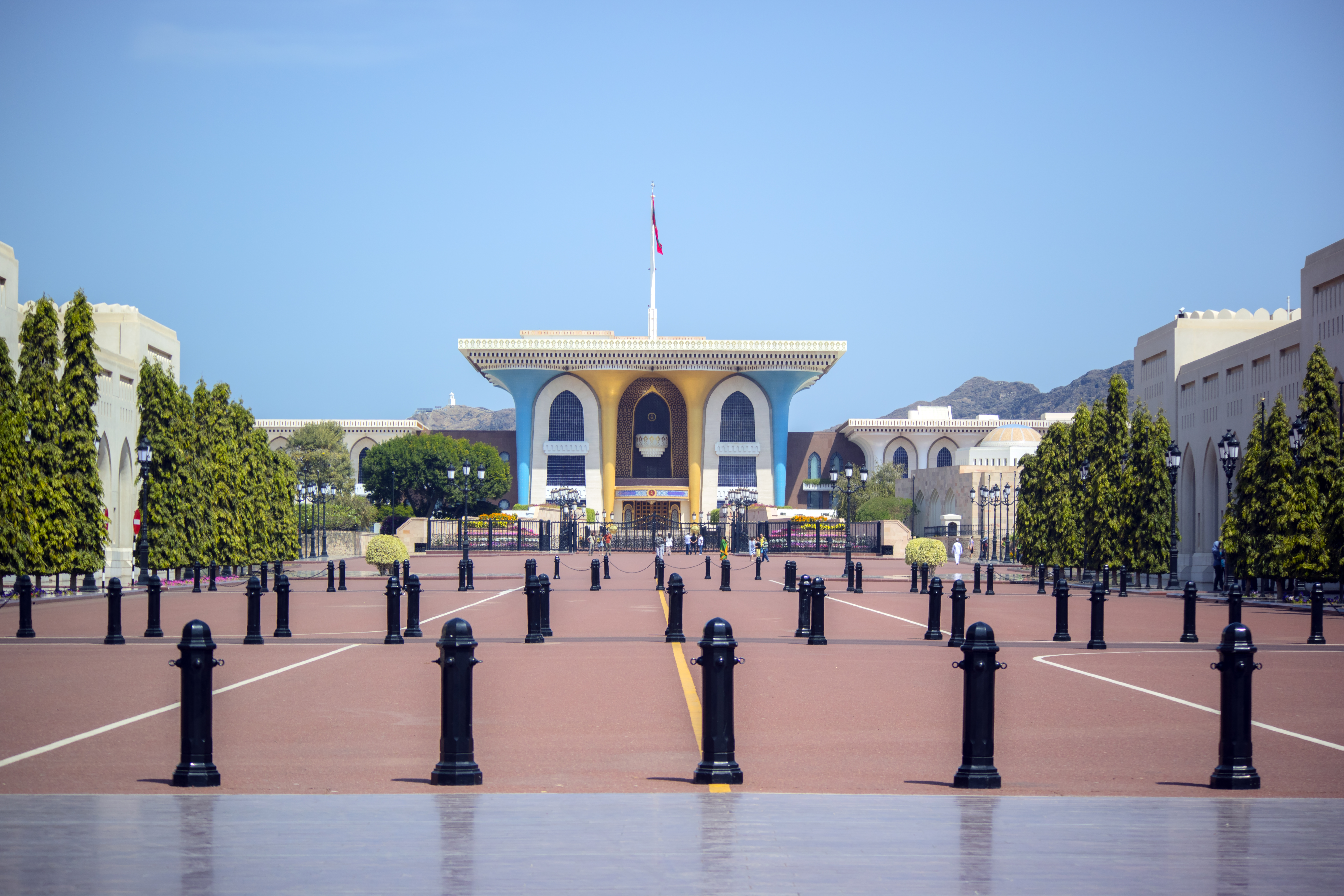 Muscat (Arabic: مسقط) is the capital and largest city of The Sultanate of Oman. It is the largest city in the mintaqah (governorate) of Muscat. The city of Muscat has a population of 650,000 (2005). The official language is Arabic.